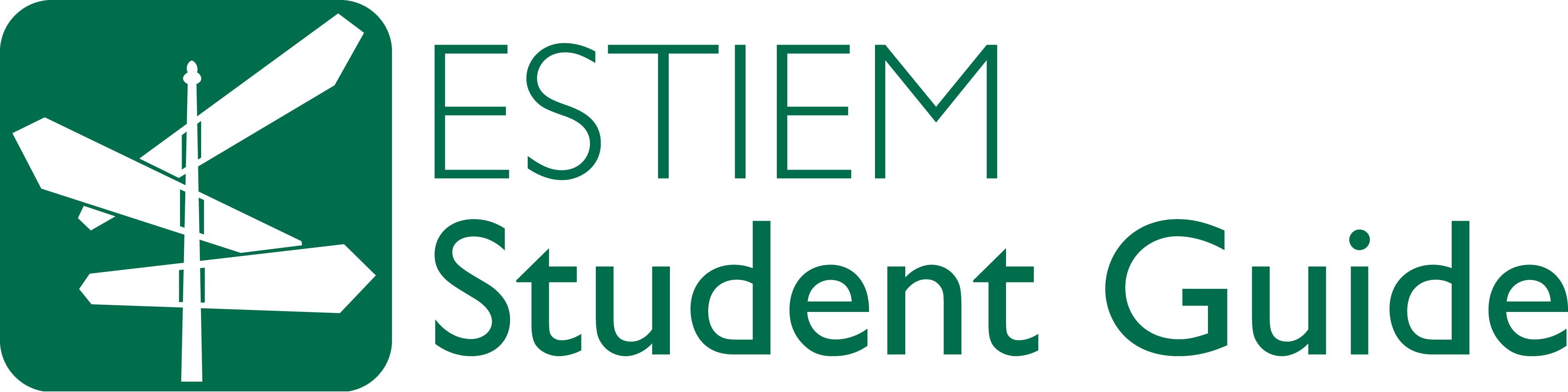 Student Guide, ESTIEM